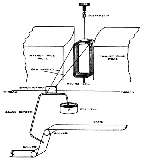 A diagram of the operating mechanism of a syphon recorder, an antique device used in telegraph stations during the late 1800s to the early 1900s to record incoming telegraph messages on paper tape. It functions on the principle of a D'Arsonval galvanometer. The telegraph signal current passes through a coil of wire suspended between the poles of a permanent magnet. The pulses of current representing "dots" and "dashes" of Morse code create a torque that causes the coil to rotate slightly about its vertical suspension. It is attached by two wires to the metal plate syphon support, which causes the metal plate to pivot about its horizontal axis suspension of thread. This swings the glass syphon tube which hangs down from the plate across the paper tape, making a pulse representing the Morse code "dot" or "dash" on the tape. A transcriber later reads the tape, translating the Morse code dots and dashes into characters spelling out the text message.